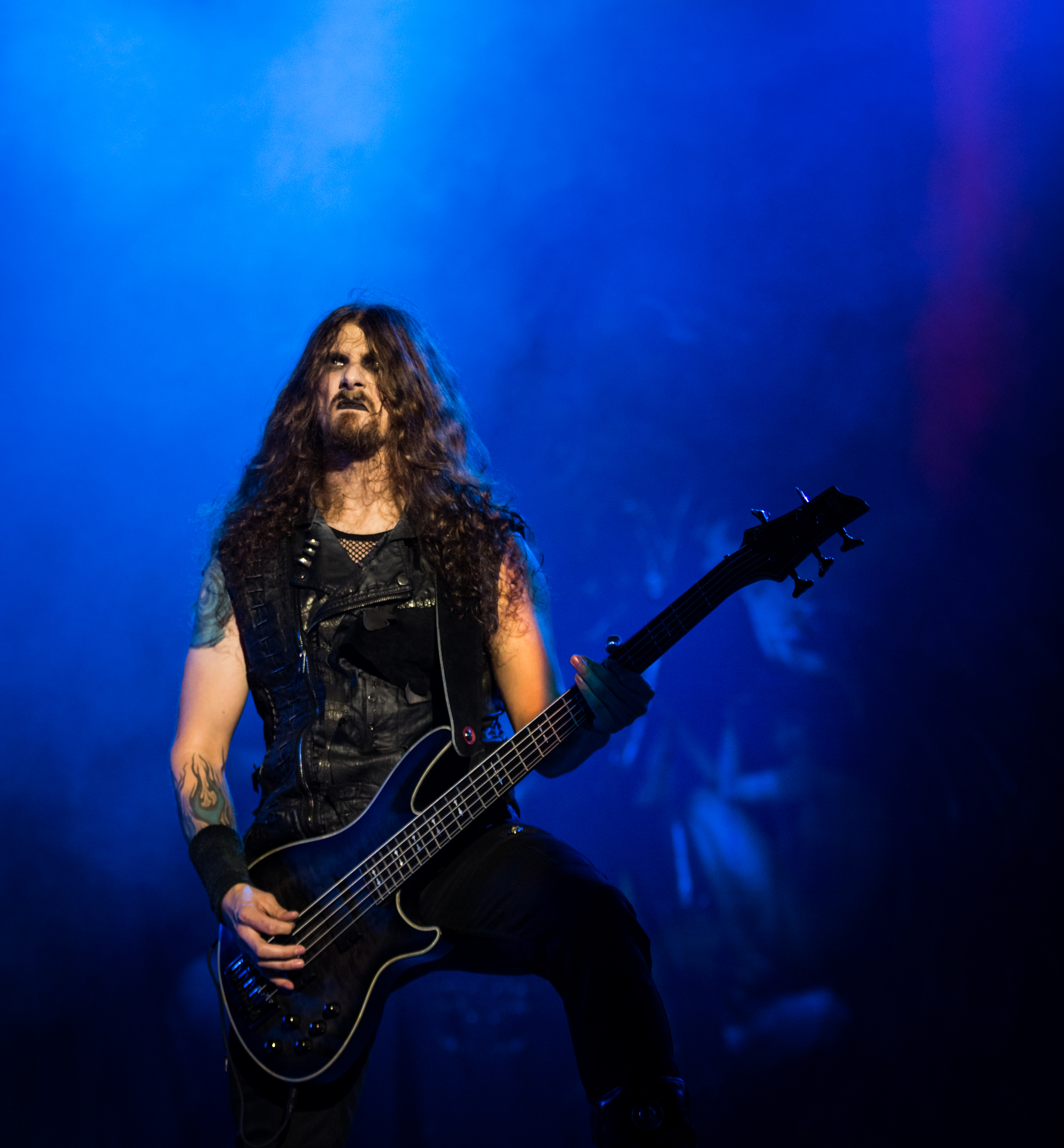 Cradle of Filth - Wacken Open Air 2015